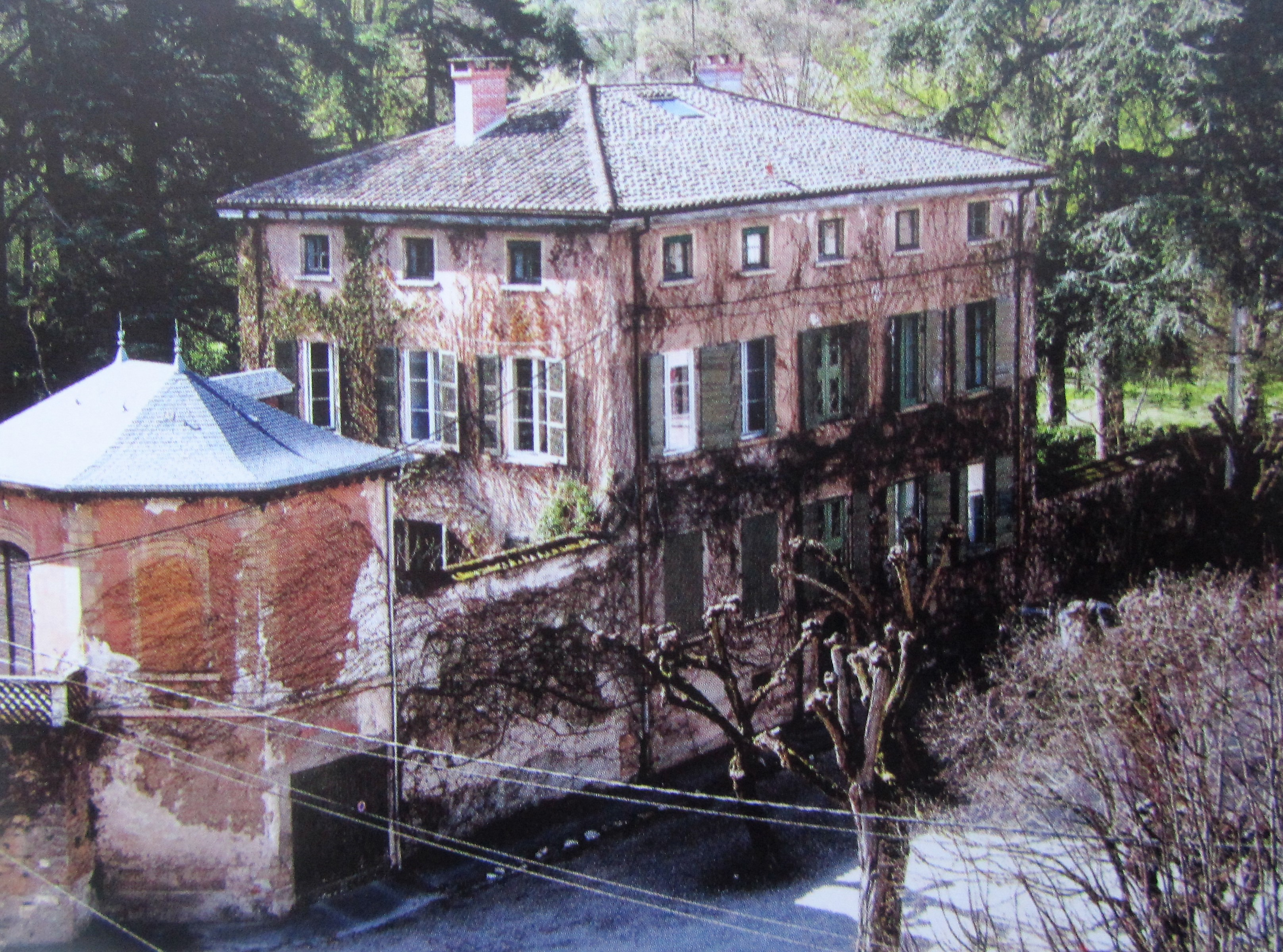 La Dixmerie reconstruite de l'île Barbe